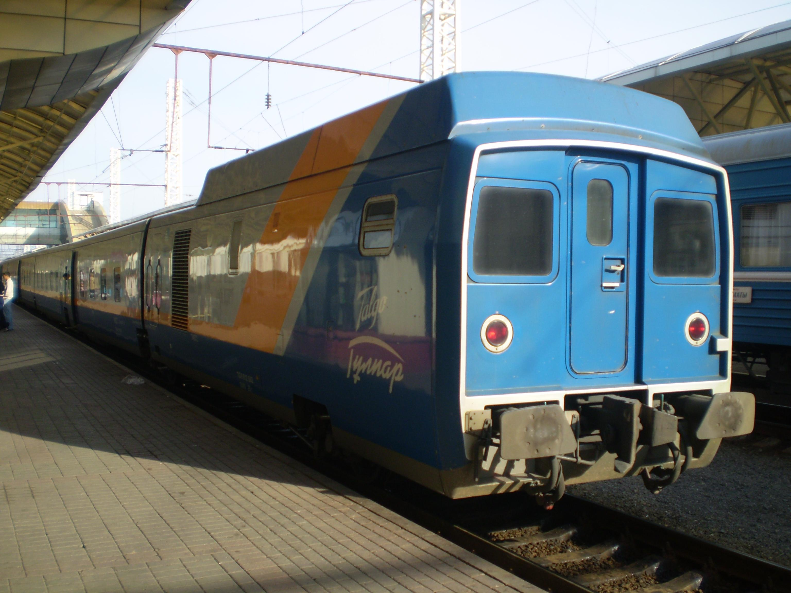 Talgo 200 Tulpar train, Nur-Sultan rail terminal. 2009. Kazakhstan